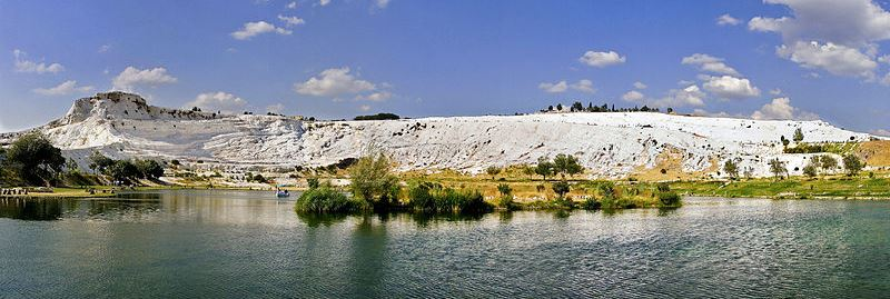 Panoramic view of Pamukkale, Turkey.